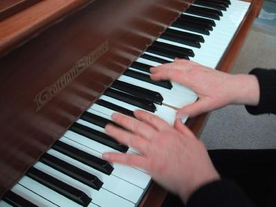 The hands of pianist Svetla Protich as she rehearses at her music studio in Osaka, Japan. January, 2005